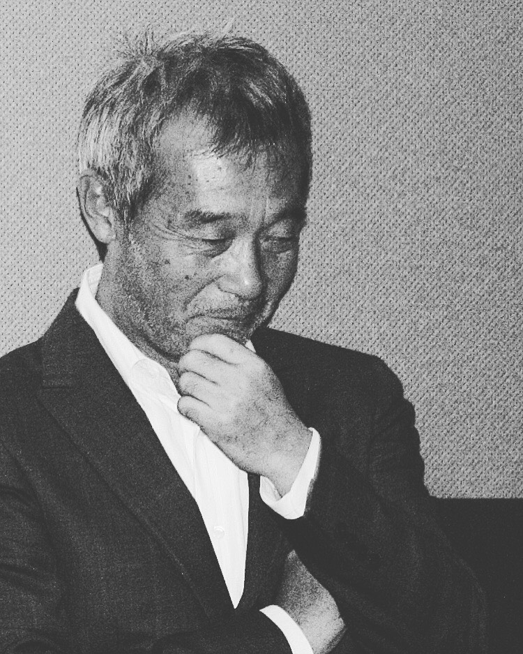 Everybody likes to look down when they are on stage. Director Tian Zhuang-zhuang had been very brief, and finished with, "My film is for watching, not for talking (about)."